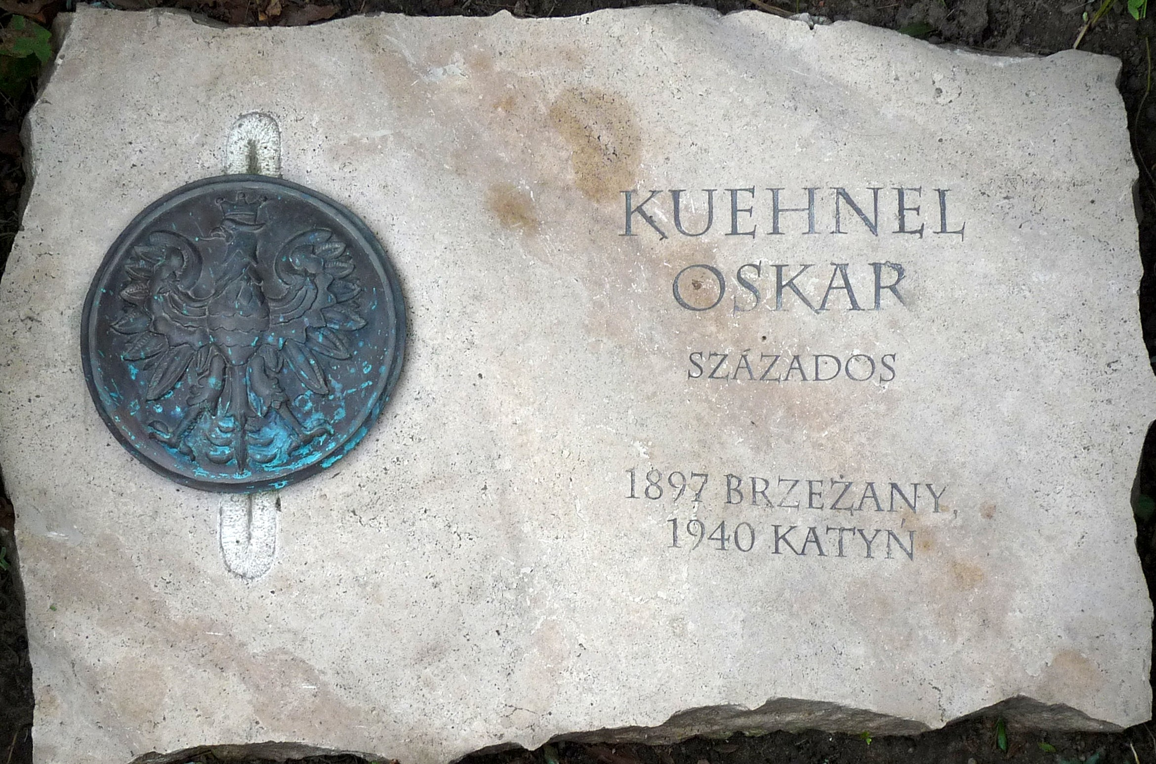 Commemorative plaque to Mr. Oskar Rudolf Kuehnel (Kühnel) (1897-1940), a Polish career officer of Hungarian descent, a martyr to the Katyń massacre. It had been placed next to an oak tree planted in memory of the officer in Óbuda April 8, 2011. (Budapest, District III, Katyn Martyrs’ Park)